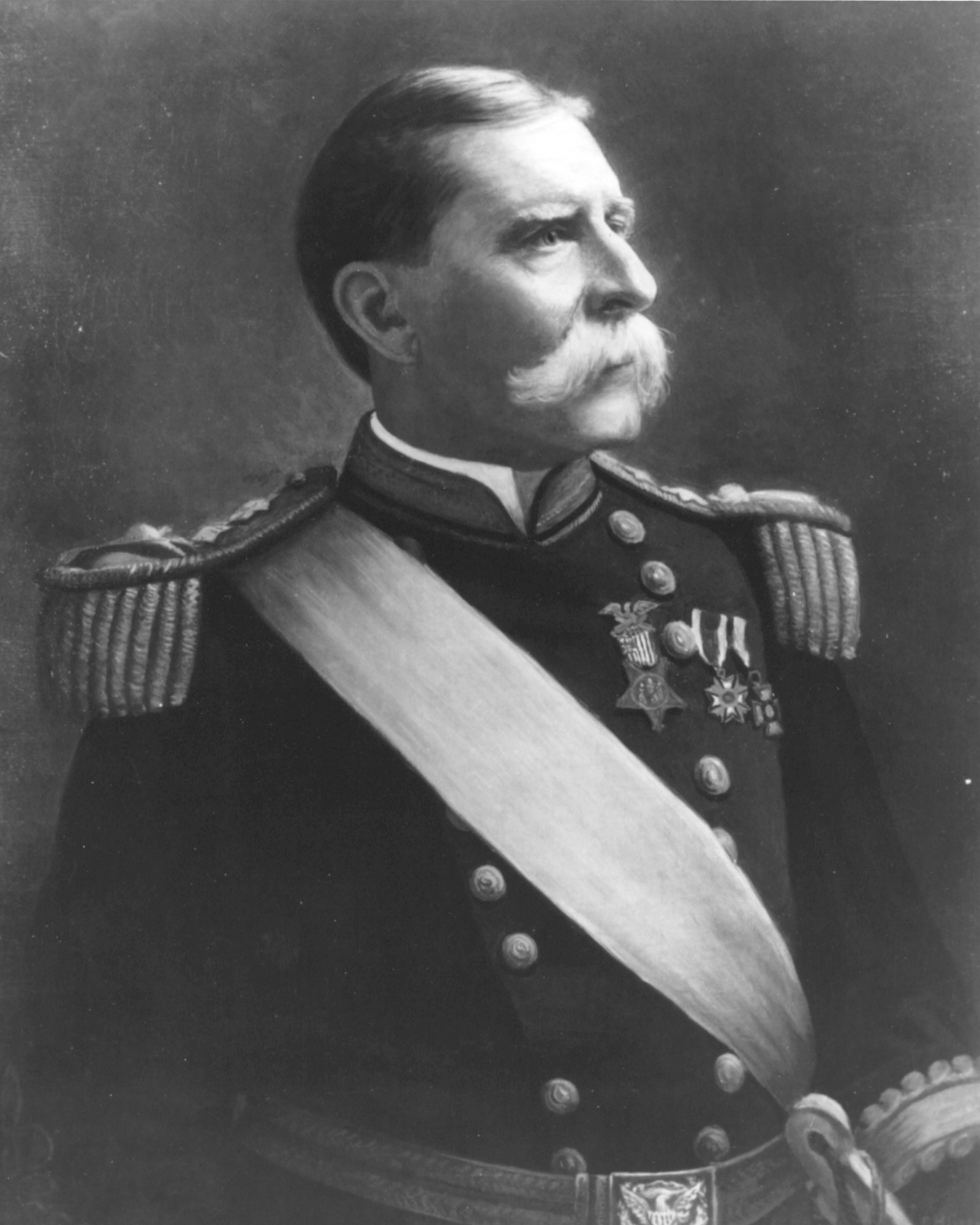 General Charles Heywood, USMC, 9th Commandant of the Marine Corps (1891-1903)